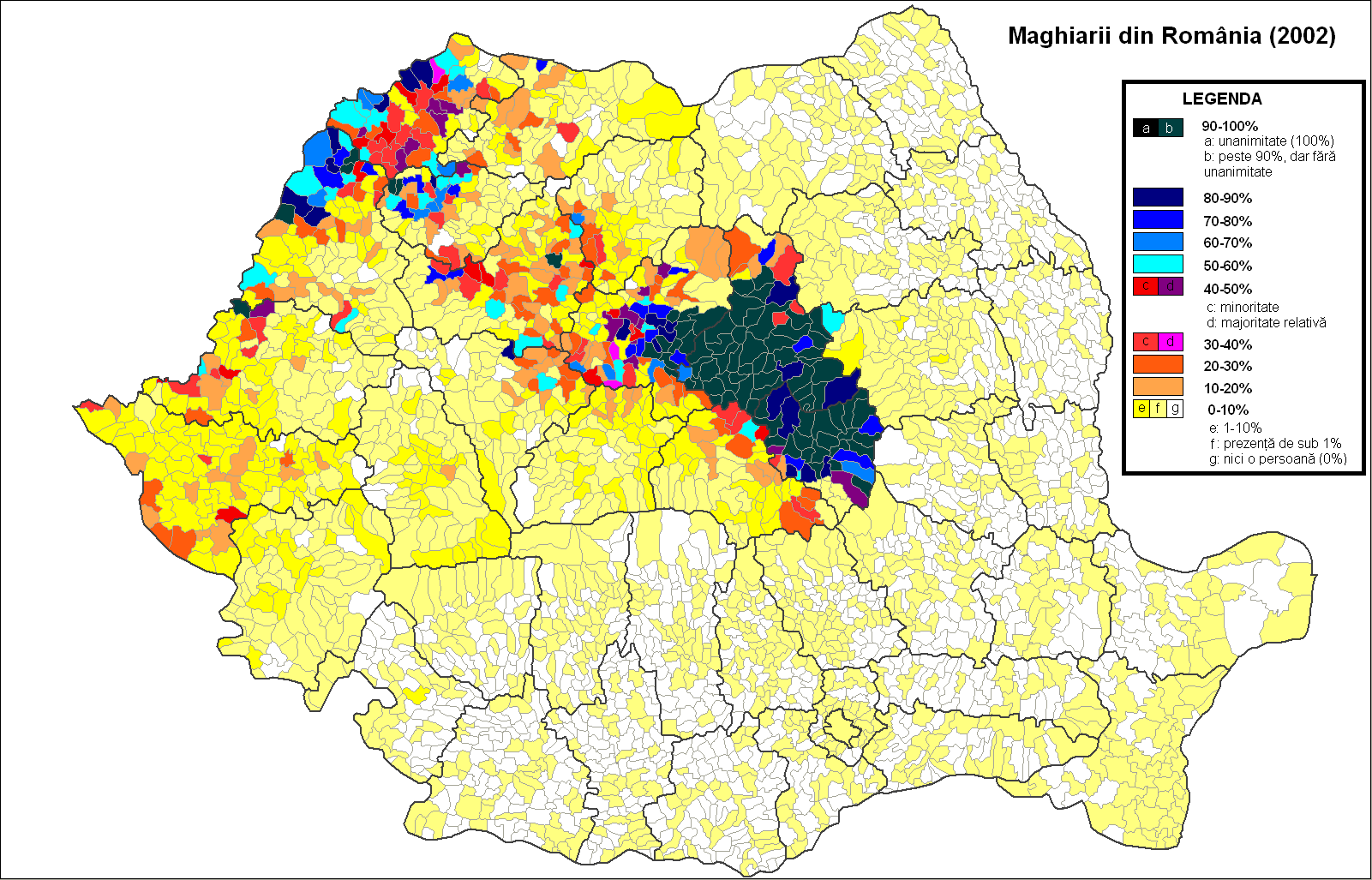 The distribution of the Hungarians in Romania (census 2002)